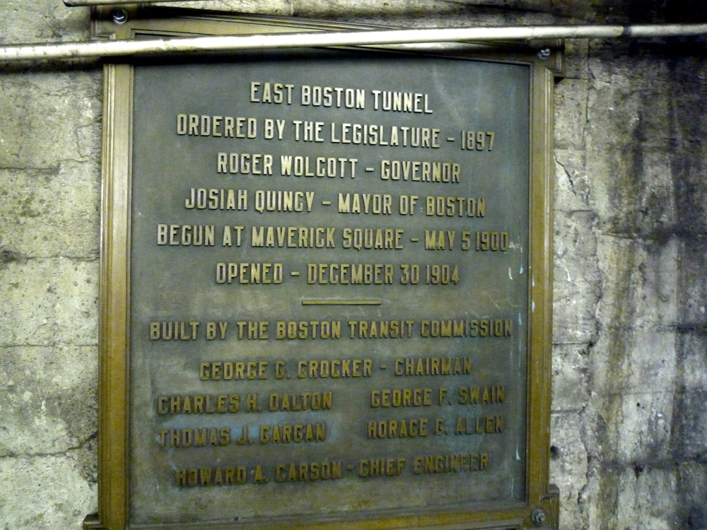 A plaque from the 1904 opening of the East Boston Tunnel, located at State station